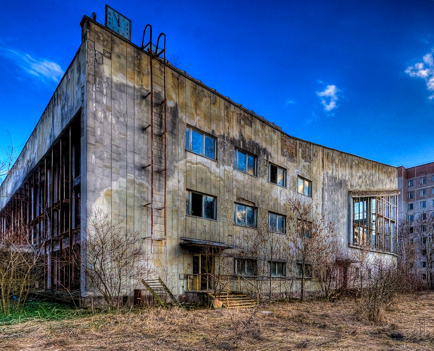 The public swimming pool in the ghost town of Priypat near Chernobyl. Modified with Gimp, by Hiob (size, color, light, contrast)